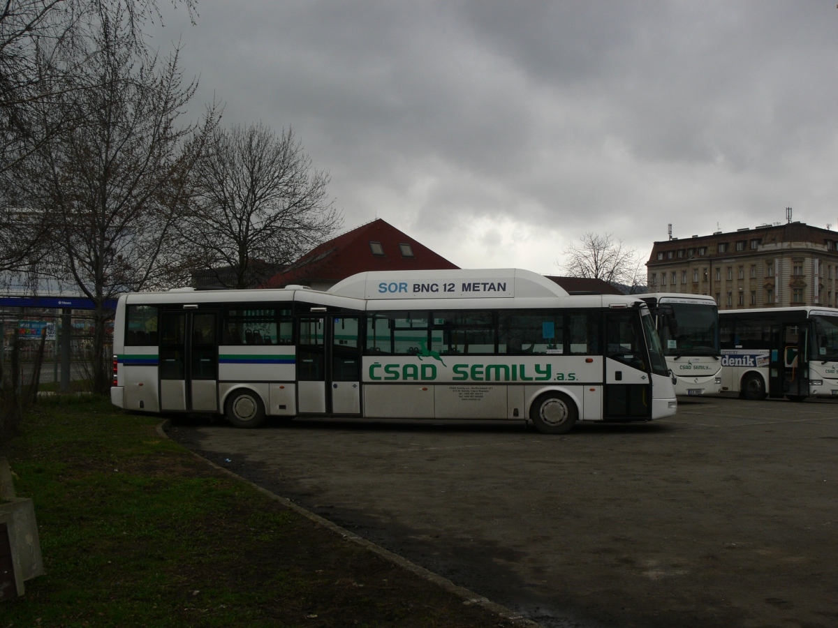 City bus SOR BNG 12 (low entry, gas powered, made in Czech Republic). Owned by ČSAD Semily, photograph taken in Ústí nad Labem (CZ). Česky: Městský autobus SOR BNG 12 (low entry, na plynový pohon). Ve vlastnictví ČSAD Semily, vyfotografováno v Ústí nad Labem.